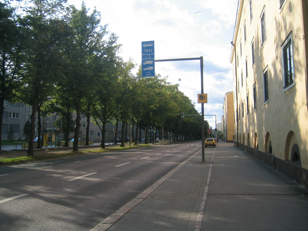 Mäkelänkatu in Helsinki, Finland